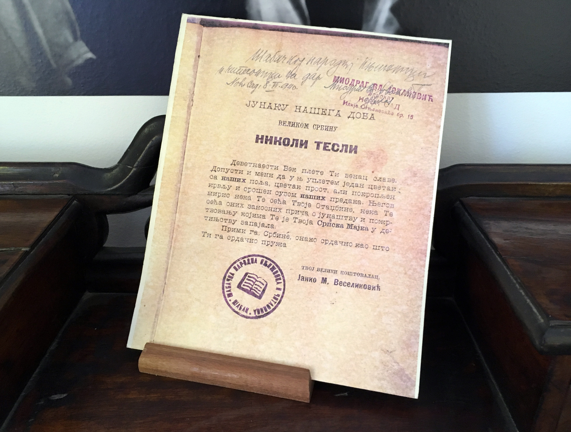 A letter by Serbian writer Janko Veselinović to Nikola Tesla, National Museum of Šabac.